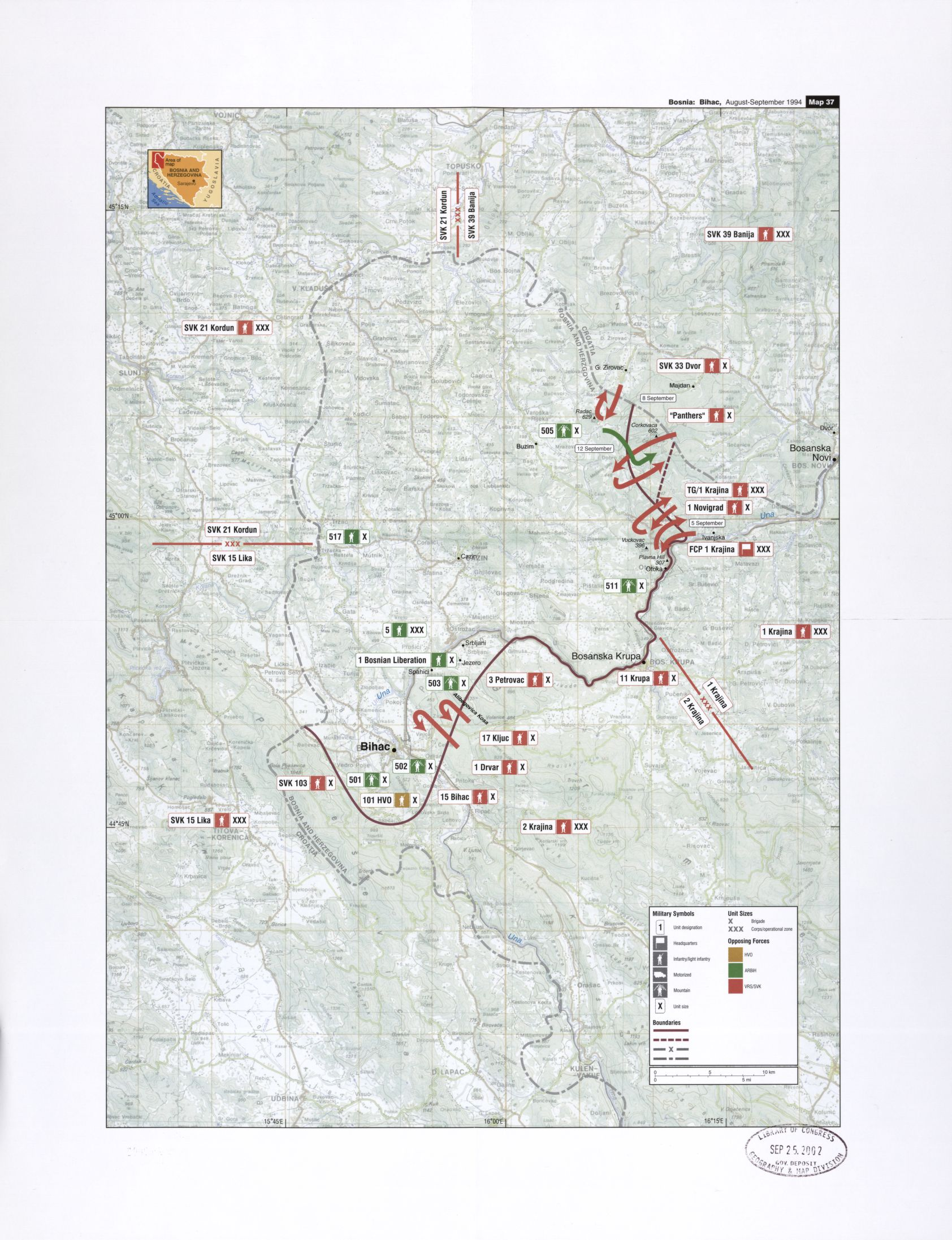 Bihac, August-September 1994